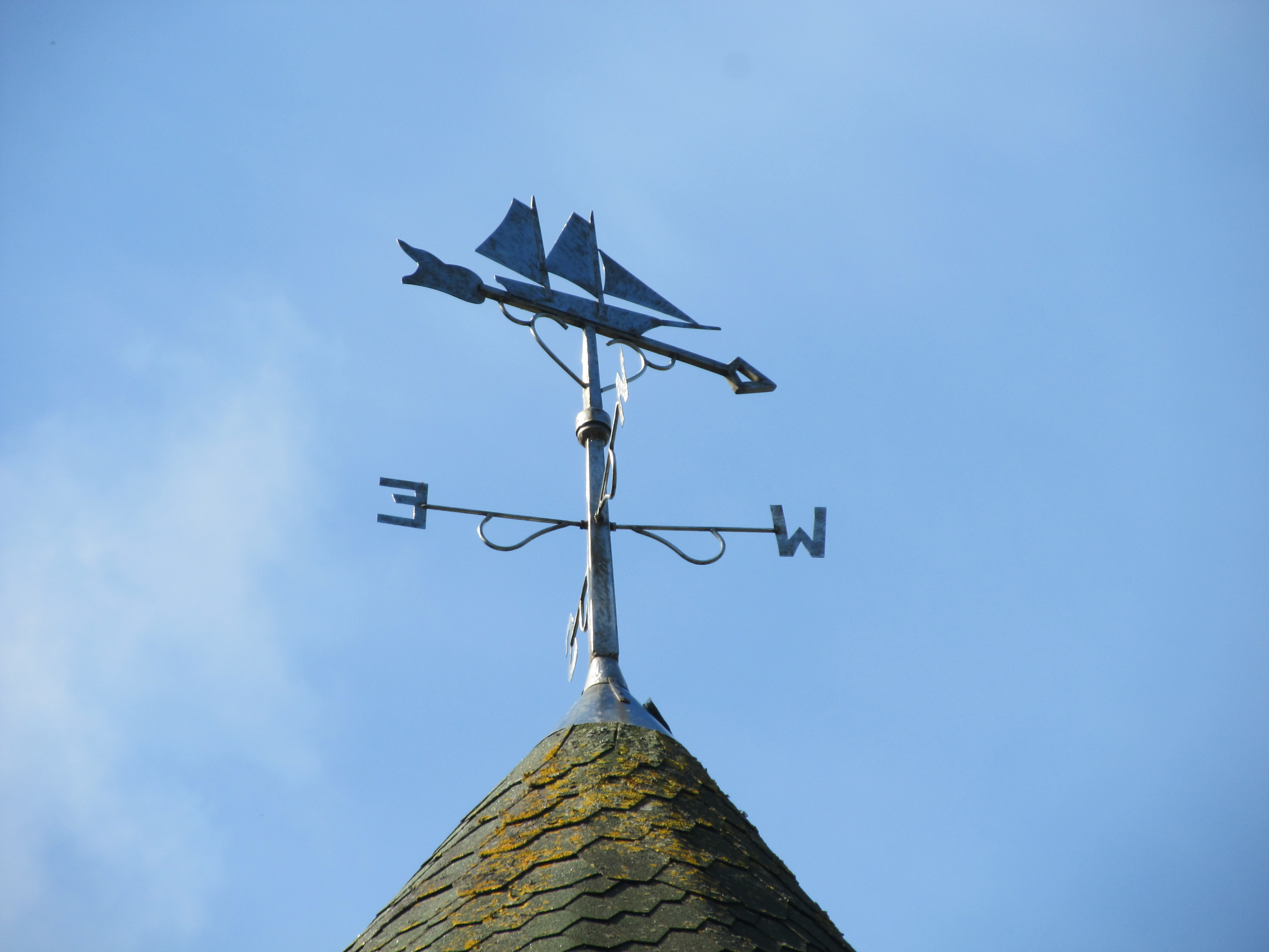 Weather vanes (Villa Meeresblick, Otradnoje / Georgenswalde, Pr Pobedy 10